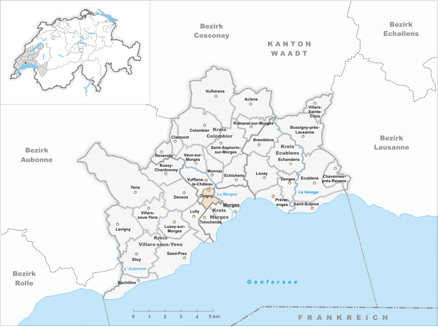 Municipality Chigny